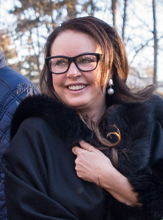 Soprano Singer Sarah Brightman, scheduled to fly to space later in 2015 as a space tourist, was on hand to wish Expedition 43 NASA Astronaut Scott Kelly, and Russian Cosmonauts Gennady Padalka, and Mikhail Kornienko of Roscosmos, farewell as the crew departed the Gagarin Cosmonaut Training Center (GCTC) in Star City, Russia, Saturday, March 14, 2015. The Expedition 43 trio is preparing for launch to the International Space Station in their Soyuz TMA-16M spacecraft from the Baikonur Cosmodrome in Kazakhstan March 28, Kazakh time. As the one-year crew, Kelly and Kornienko will return to Earth on Soyuz TMA-18M in March 2016.